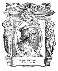 Illustratio from "Le Vite" by Giorgio Vasari, edition of 1568. For the artist portrayed see filename